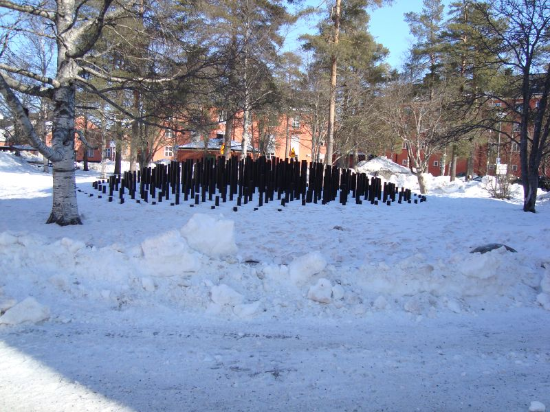 Umeå sculpture park/Sweden with Forest Hill (1997) by Buky Schwartz#